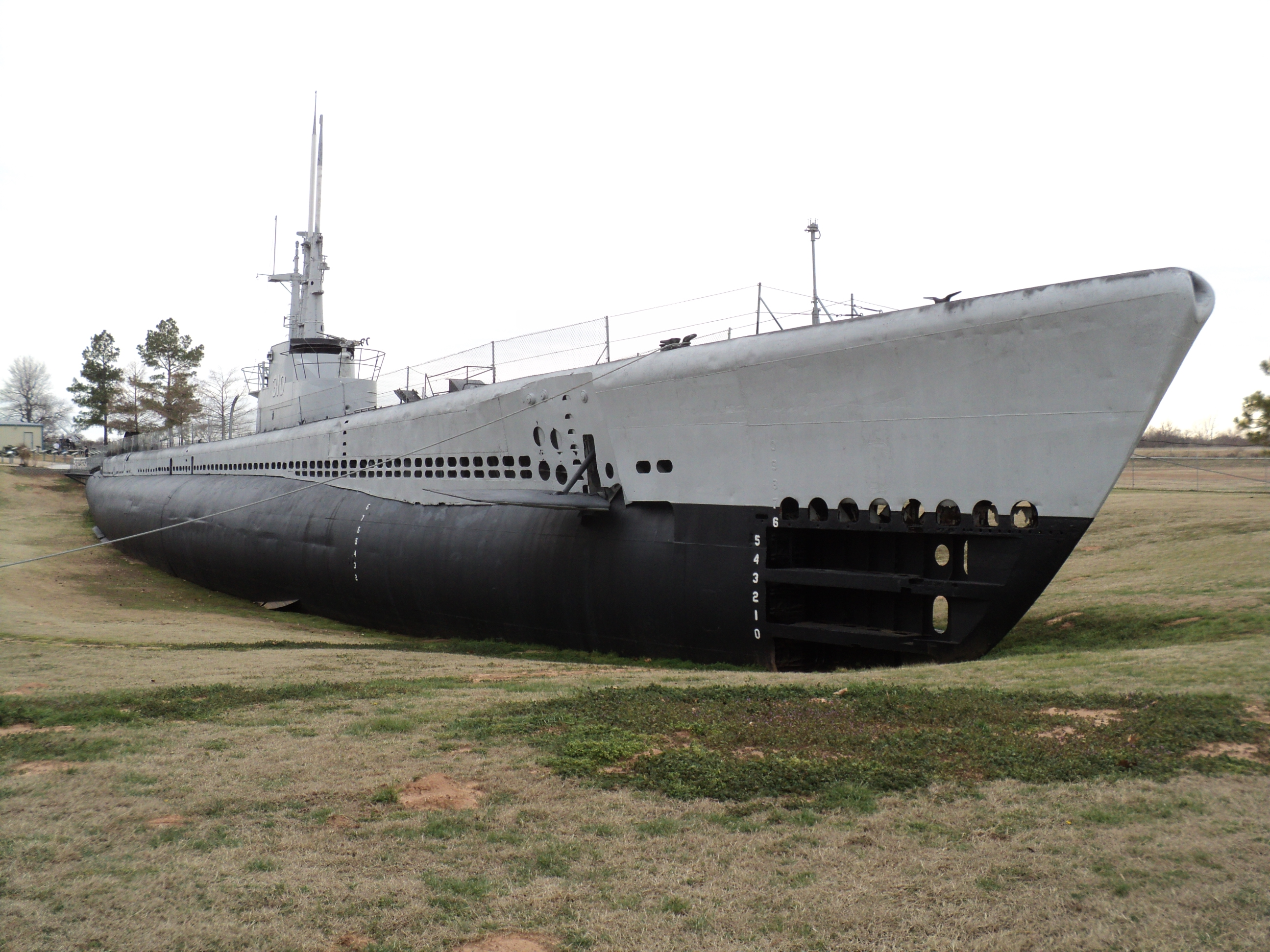 Updated restoration and paint